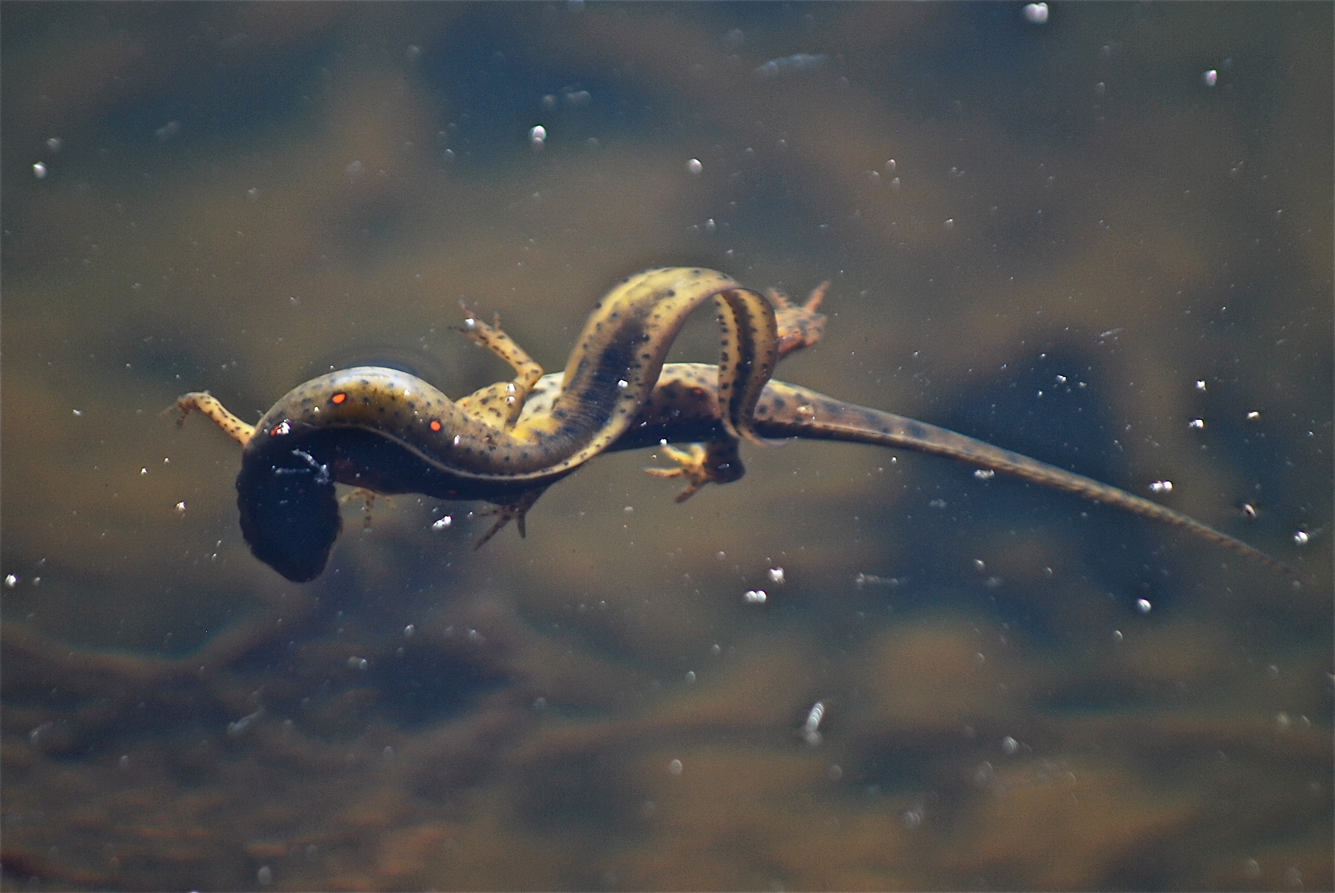 Male courting female at Douthat State Park Learn more about Douthat State Park here